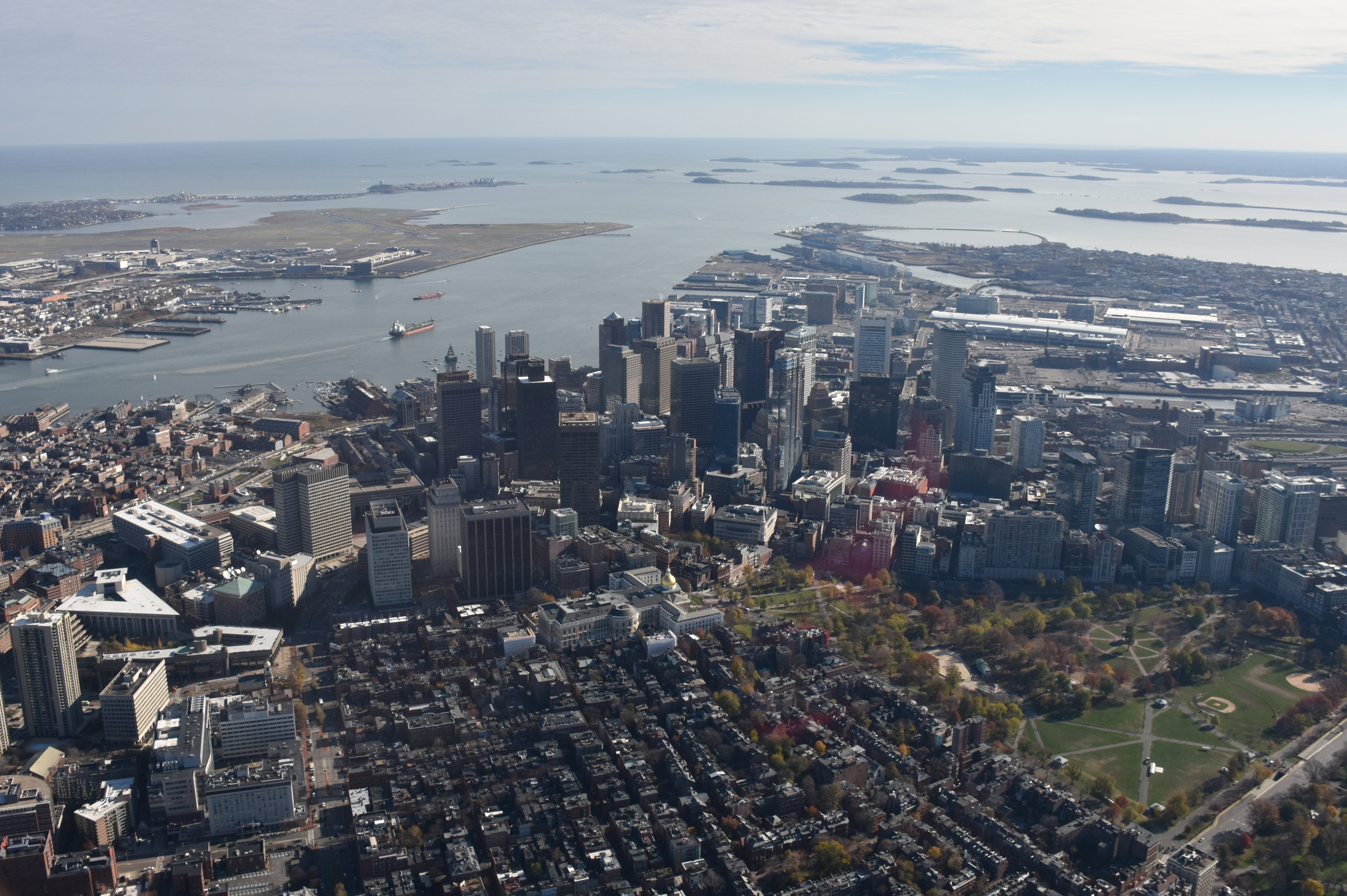 Aerial view of central Boston looking towards Boston Harbor. Includes Boston Common, Beacon Hill, Seaport (South Boston), and Logan Airport